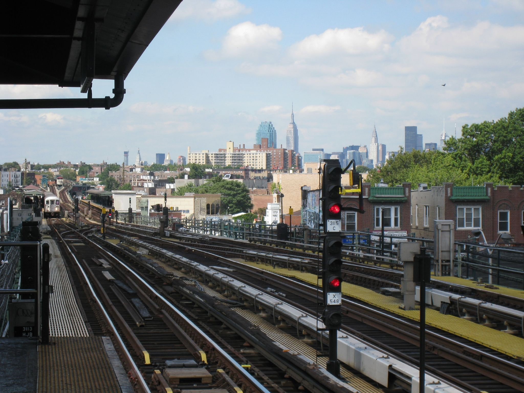 The 7 Train in Queens